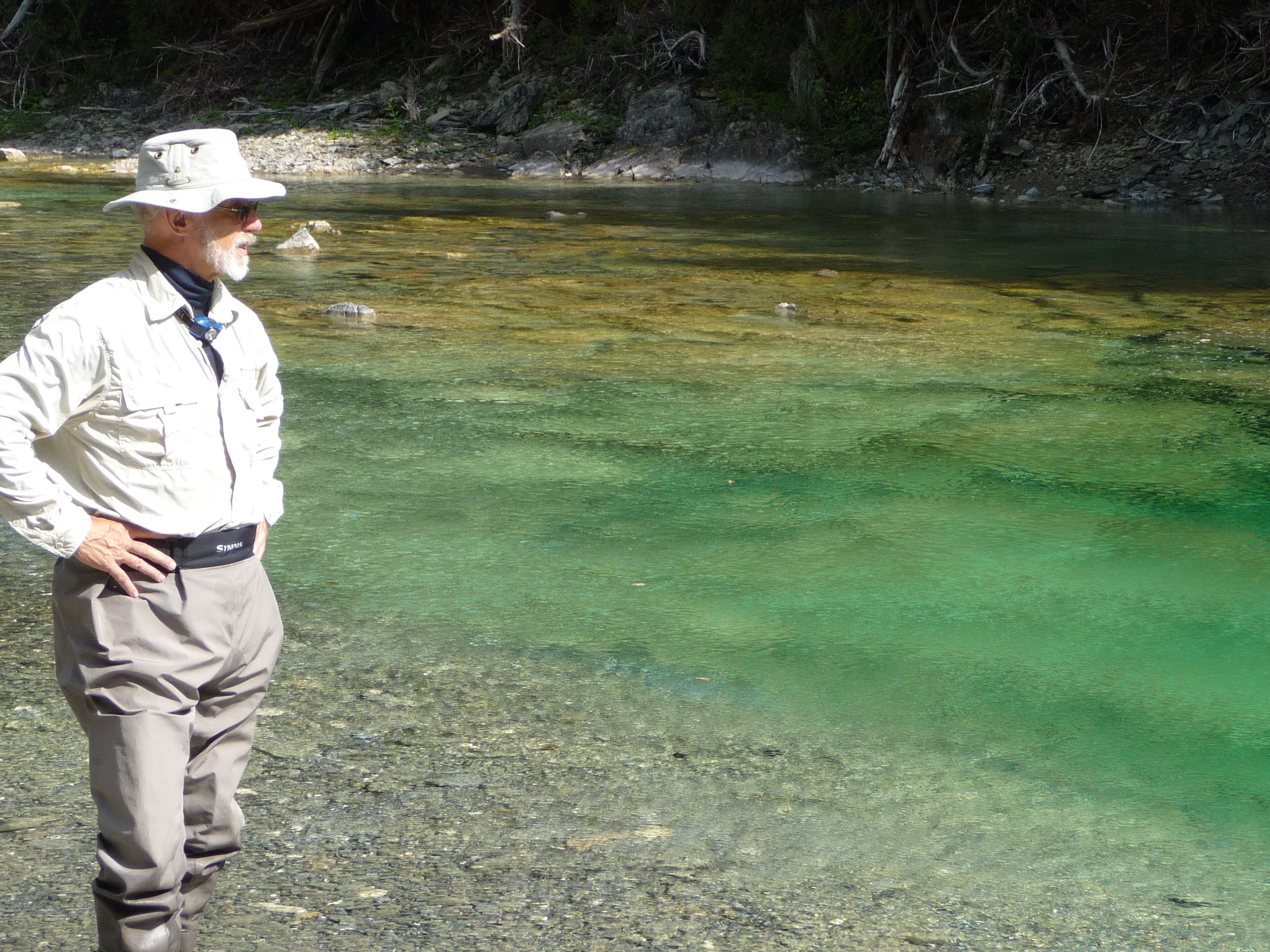 Almost each year for the past 10 years, I went to a salon fishing trip with my father on the 3 Pabos Rivers near Chandler in gaspesia, Québec. I took a lot of photos of the 3 rivers. I took the pictures myself.